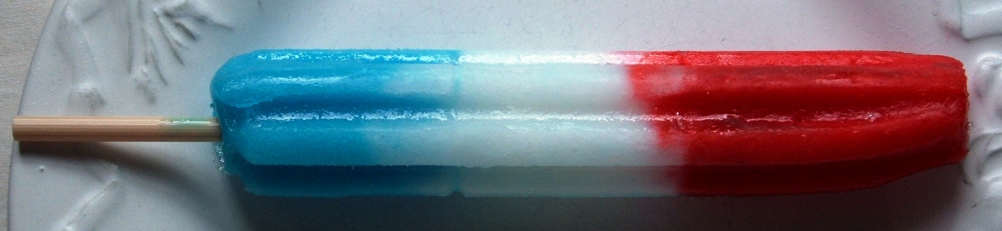 Bomb pop frozen dessert - original flavor (cherry, lime and blue raspberry)